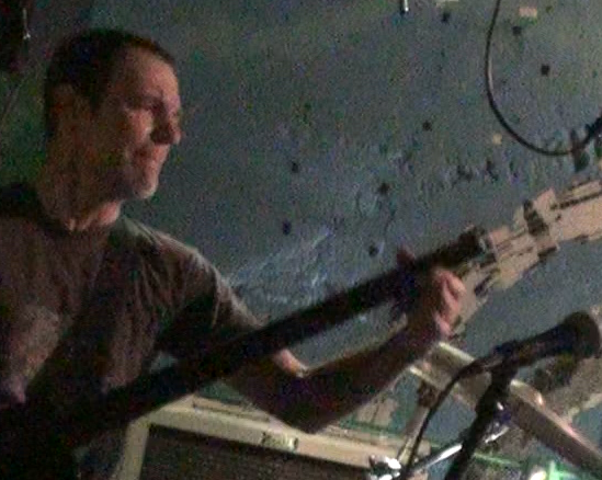 Ron Anderson at the Silent Barn with PAK